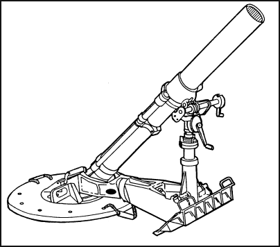 Scheme of M30 4.2-inch mortar